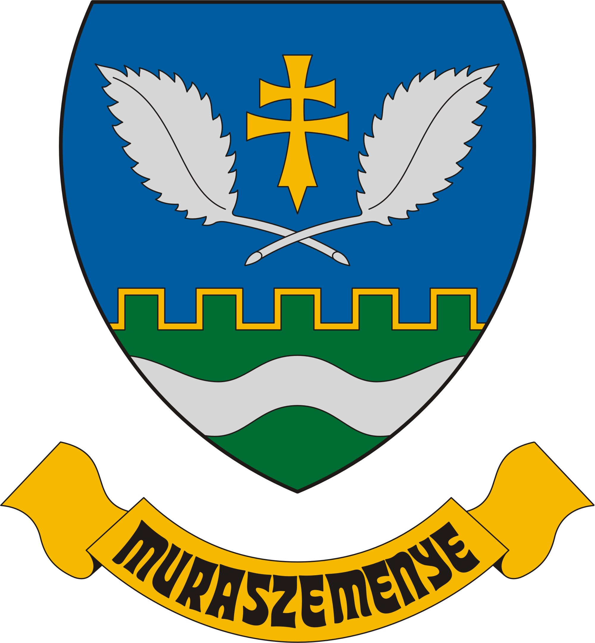 Coat of arms of Muraszemenye, Hungary